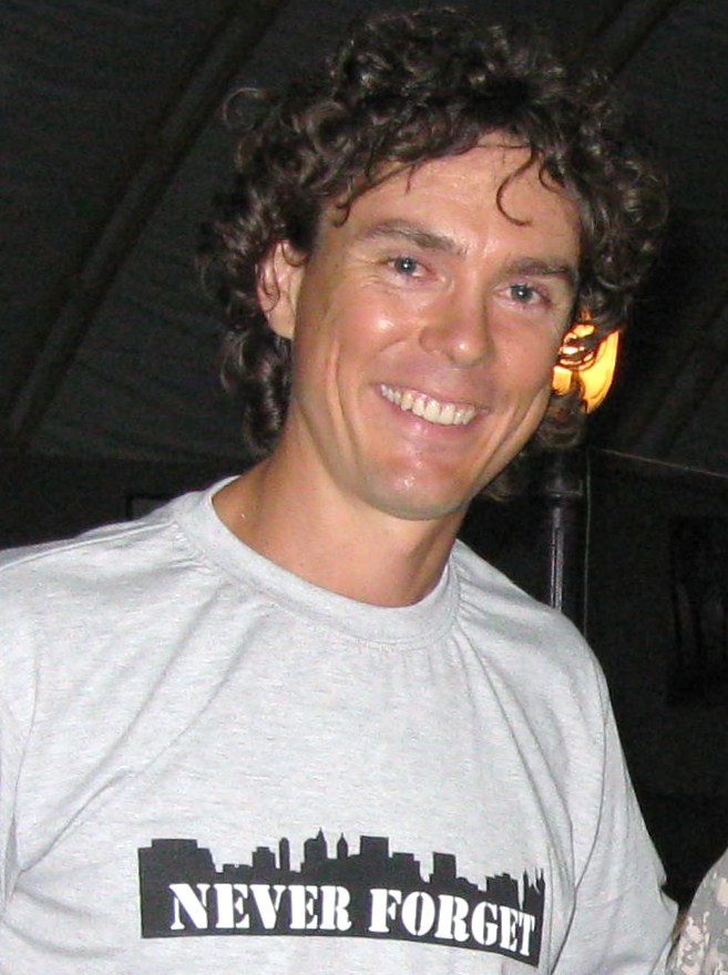 Photo of Scott Jurek, ultramarathoner, when he visited troops in Kuwait